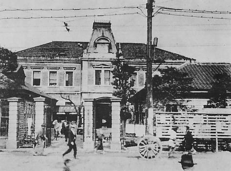 Former Hongo Ward Office